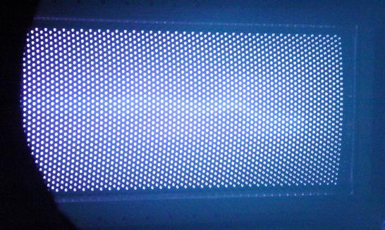 Shows HiPEP test thruster being tested for effective beam extraction.